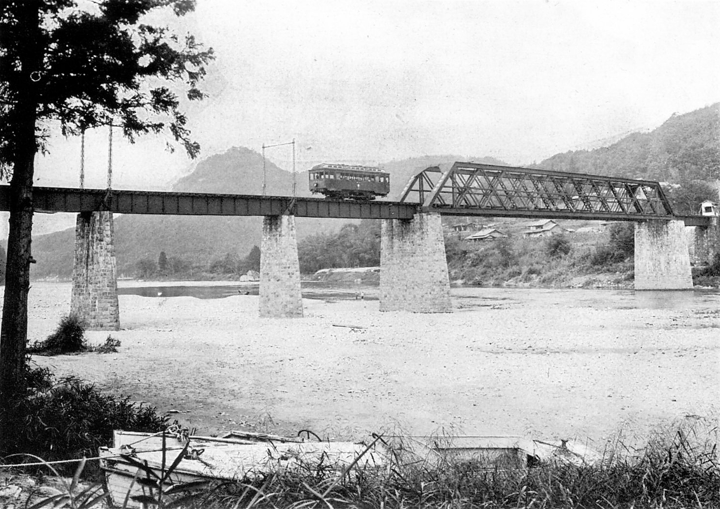 Kisogawa Bridge of Kitaena Railway.